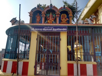 Kumbakonam arasamara vinayakar temple கும்பகோணம் அரச மர விநாயகர் கோயில்